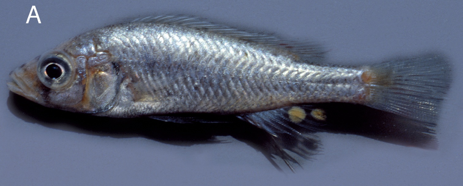 Live colours of Haplochromis goldschmidti: sexually active ♂, 53.6 mm SL (paratype, RMNH.PISC.80480).